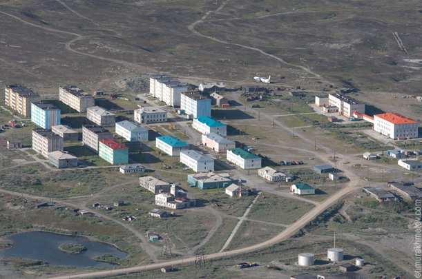 Ozyorniy